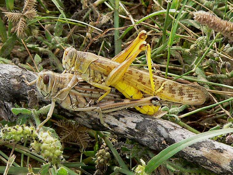 Copulating desert locust, Schistocerca gregaria, photographed near Aiterba on the Sudanese Red Sea coast.